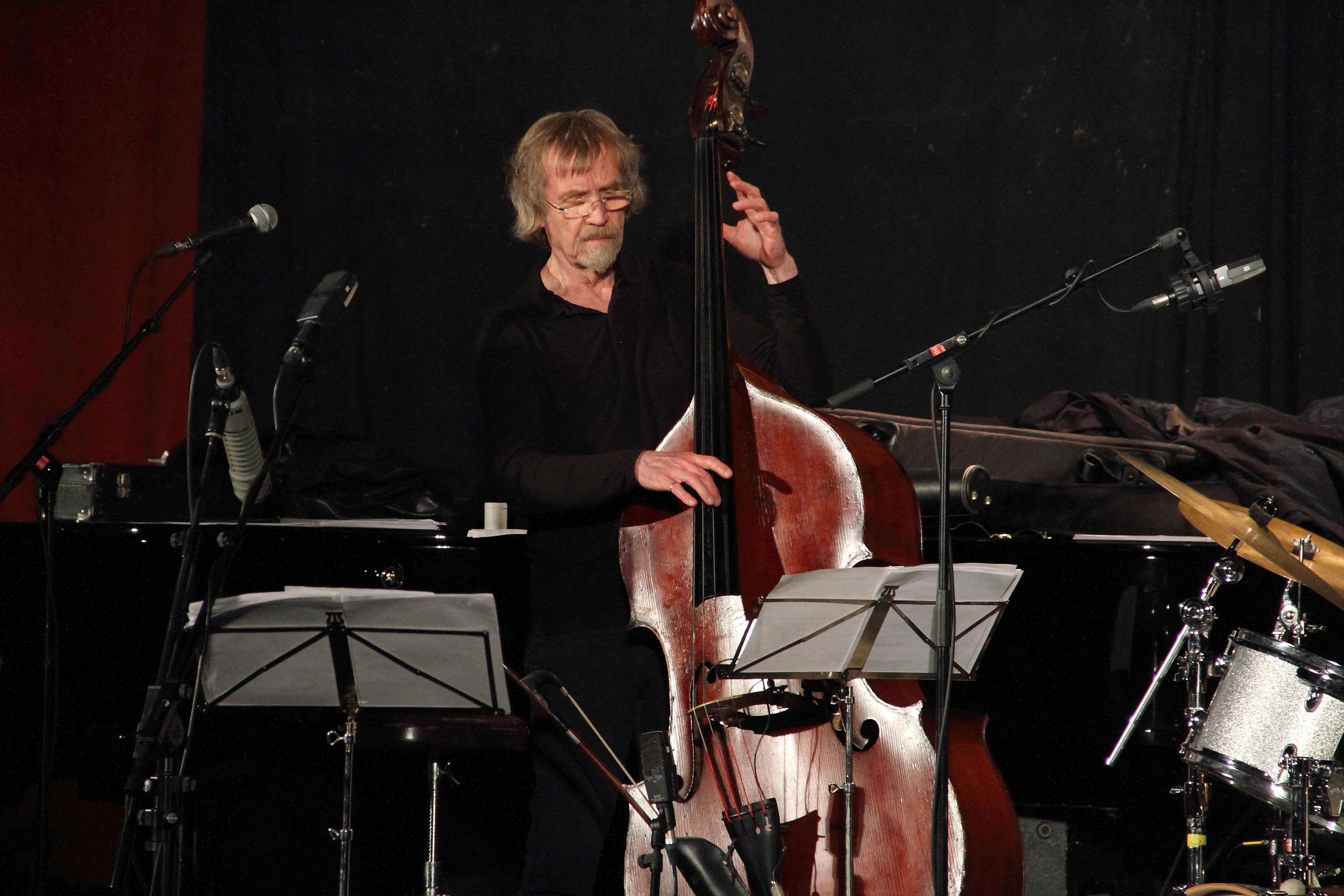 Dudek/Haurand/Humair at INNtöne Jazzfestival, Austria 2016.